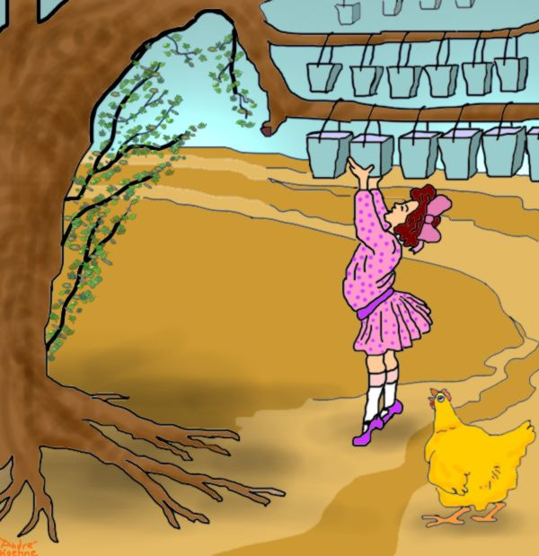 I don't do art for a living, neither for personal nor professional propaganda. I don't make any drawings for money. Thanks.